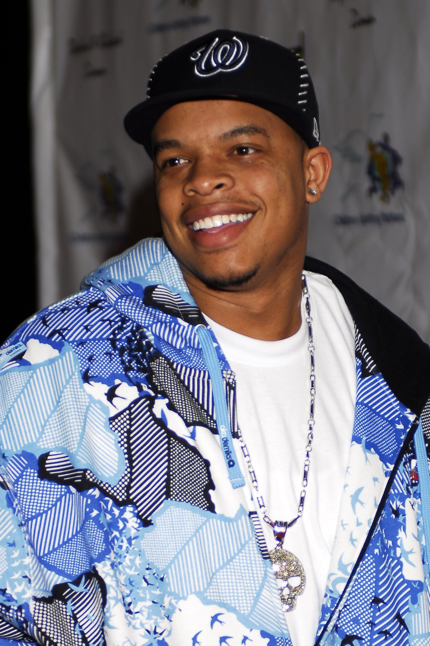 Hood Surgeon at the 79th Annual Academy Awards Children Uniting Nations/Billboard afterparty.